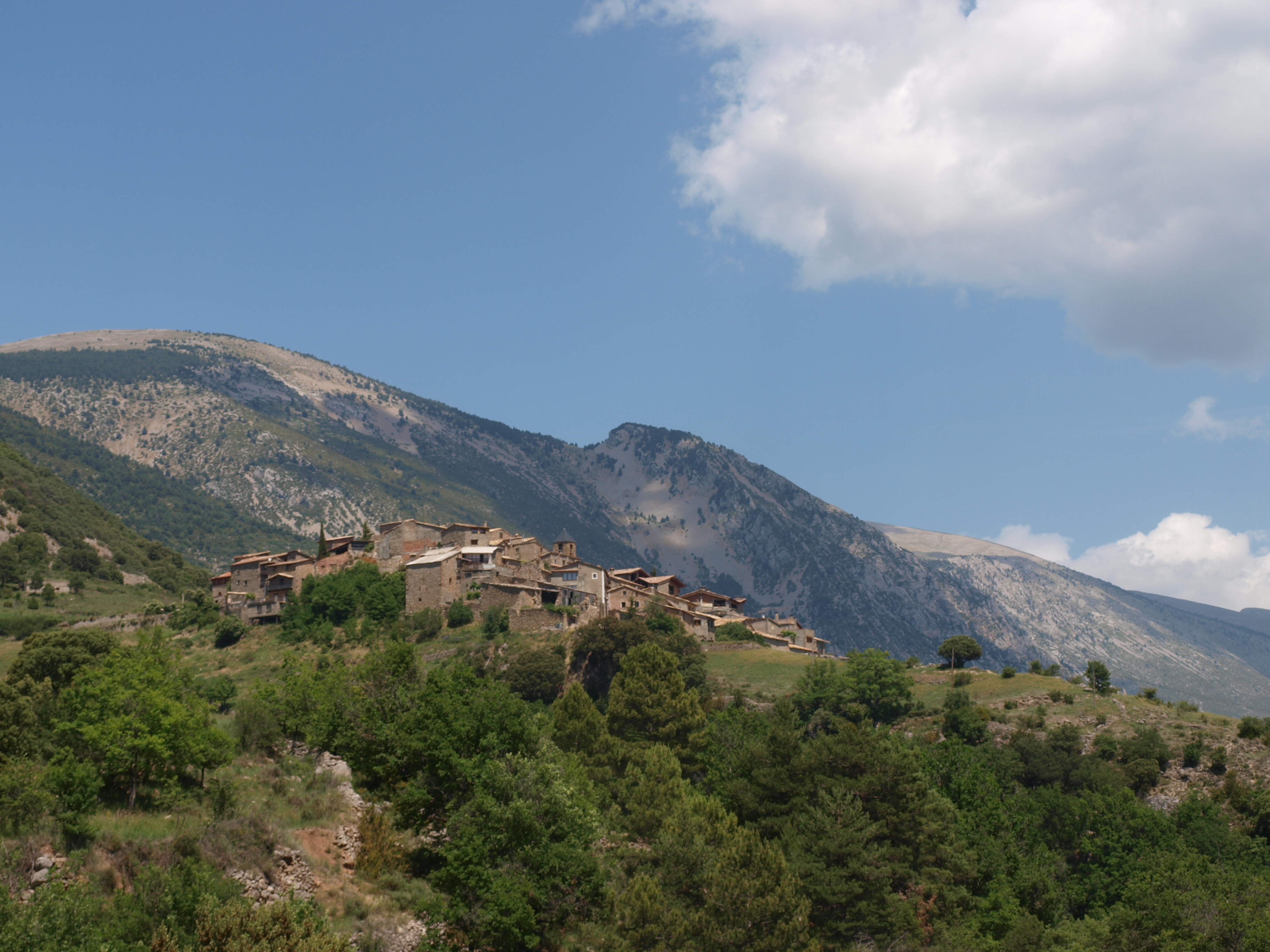 View of Fórnols del Cadí, municipality of La Vansa i Fórnols (Alt Urgell, Catalunya)